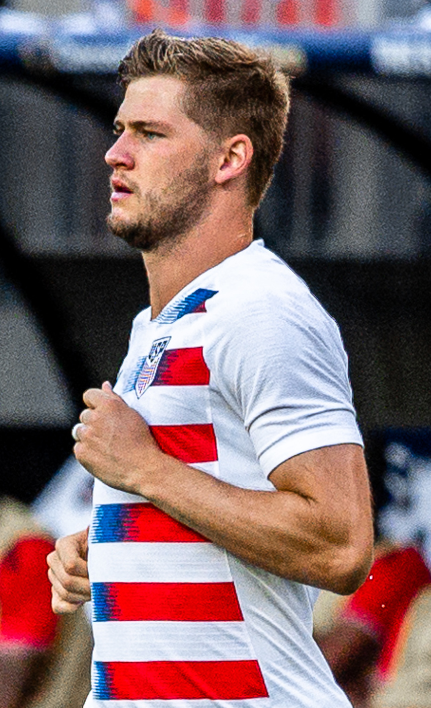 USMNT vs. Trinidad and Tobago